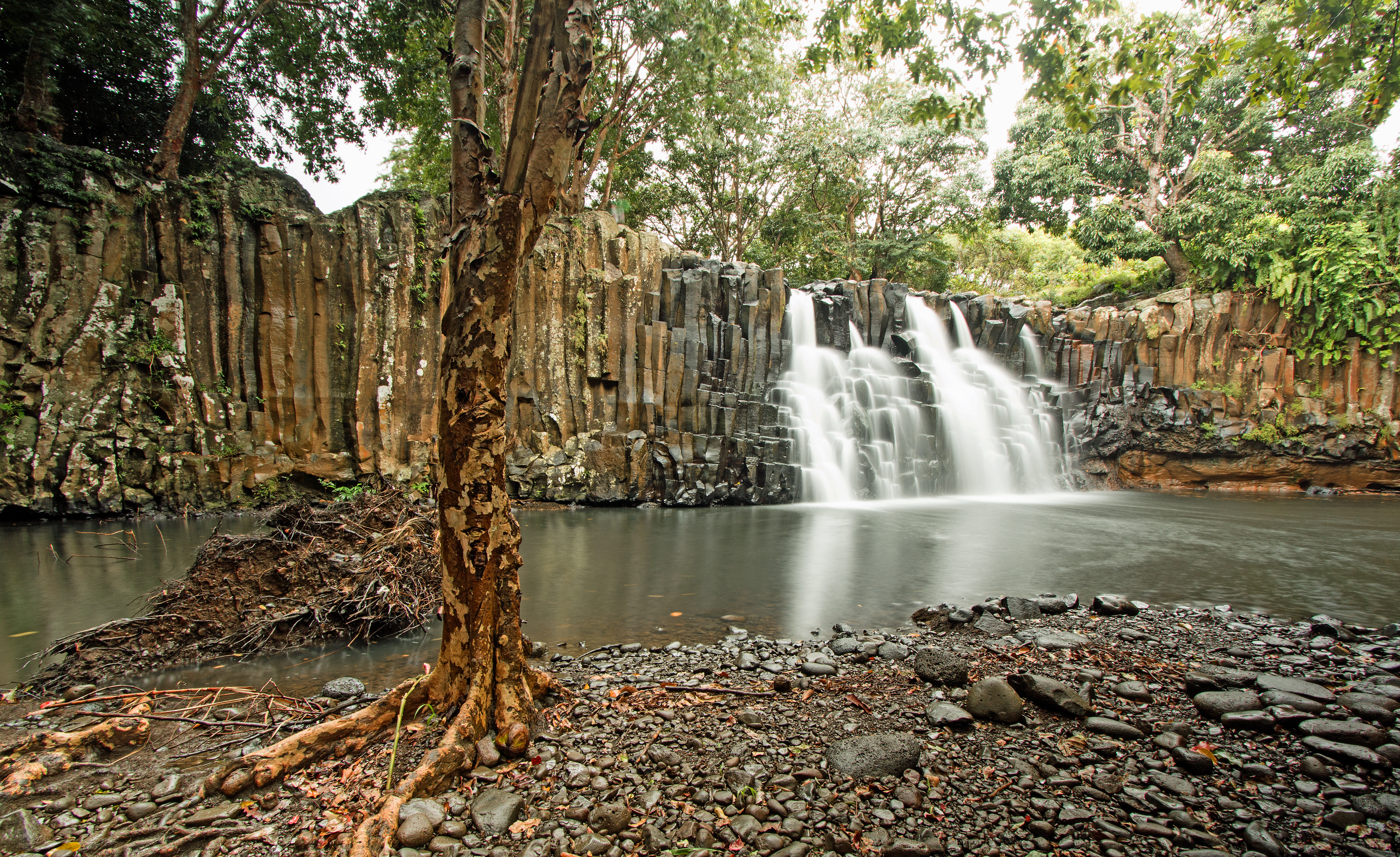 Rochester Falls near Souillac Savanne